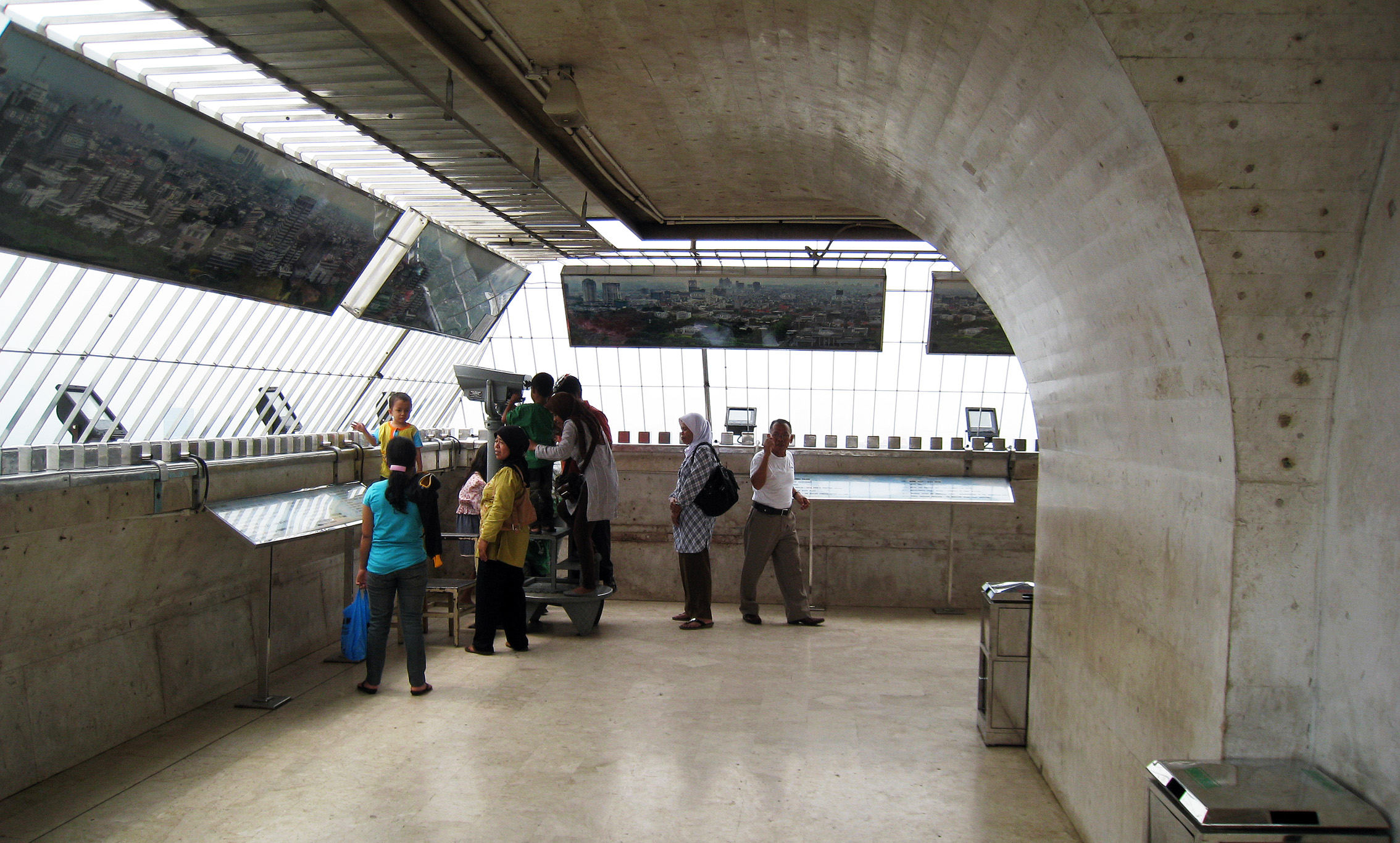 The 115 meters high peak platform of Monas (National Monument) of Indonesia, Jakarta.